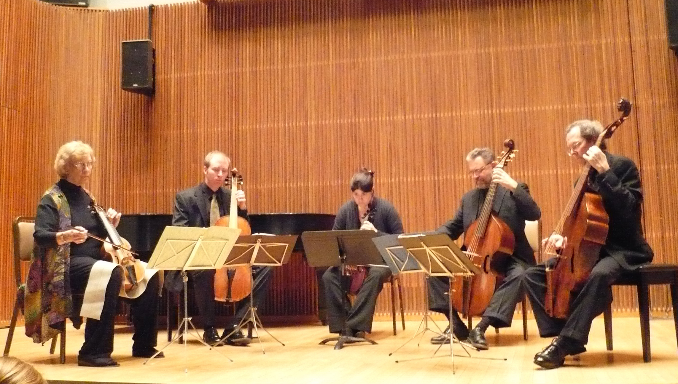 The Smithsonian Consort of Viols, performing in the Kulas Recital Hall, Oberlin Conservatory of Music, Oberlin, Ohio, United States. From left to right: Catharina Meints, treble viol; Craig Trompeter, tenor viol; Marie Dalby Szuts, treble viol; Brent Wissick, bass viol; Kenneth Slowik, bass viol